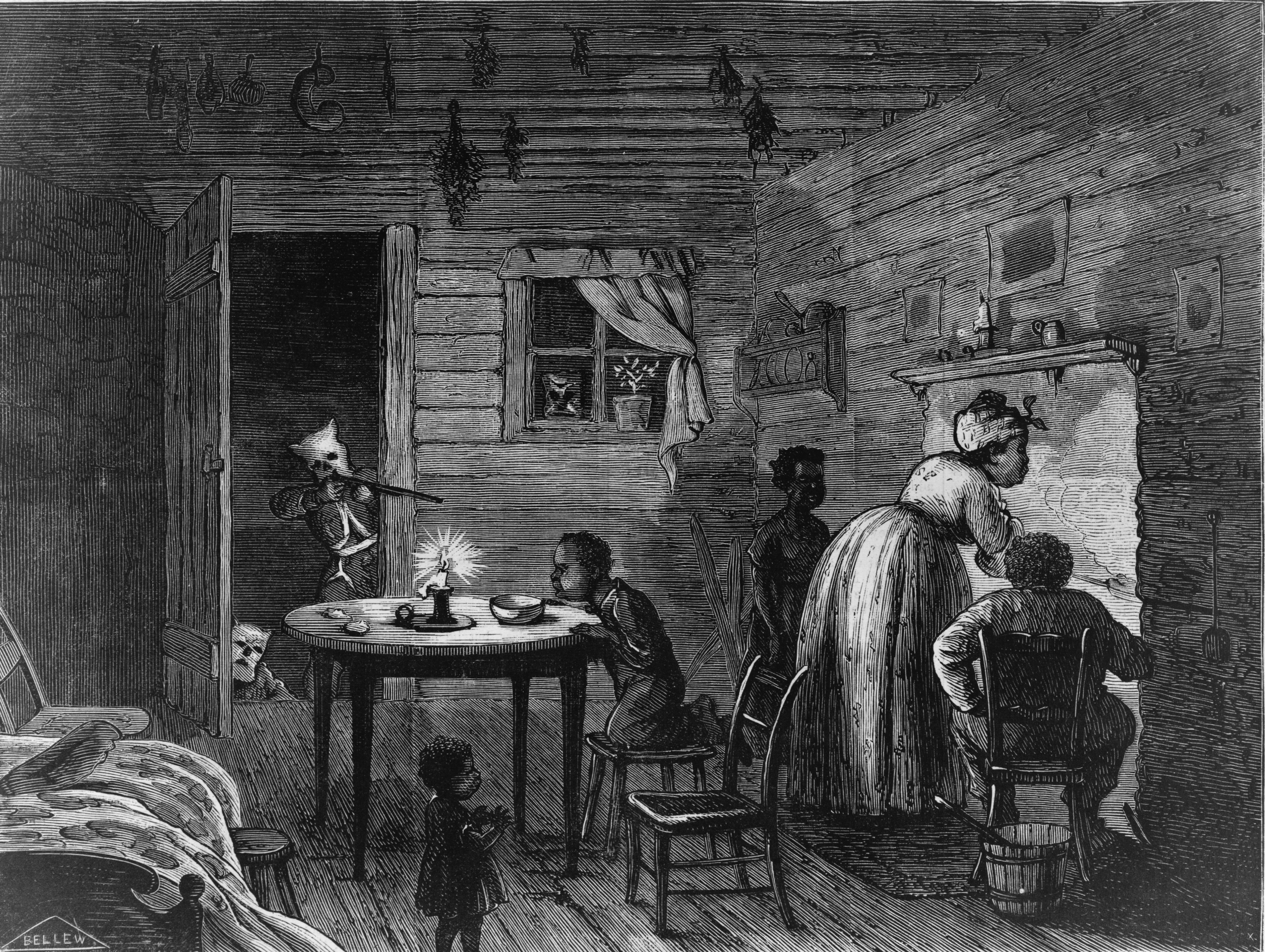 "Visit of the Ku-Klux". Drawn by Frank Bellew, 1872. Engraving showing African American family in a humble home. Woman is cooking at the fireplace, man seated alongside, and three children. A masked man from Ku Klux Klan is aiming a rifle in doorway; two more masked figures also peek in.